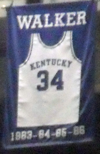 A jersey honoring Kenny "Sky" Walker hangs in Rupp Arena